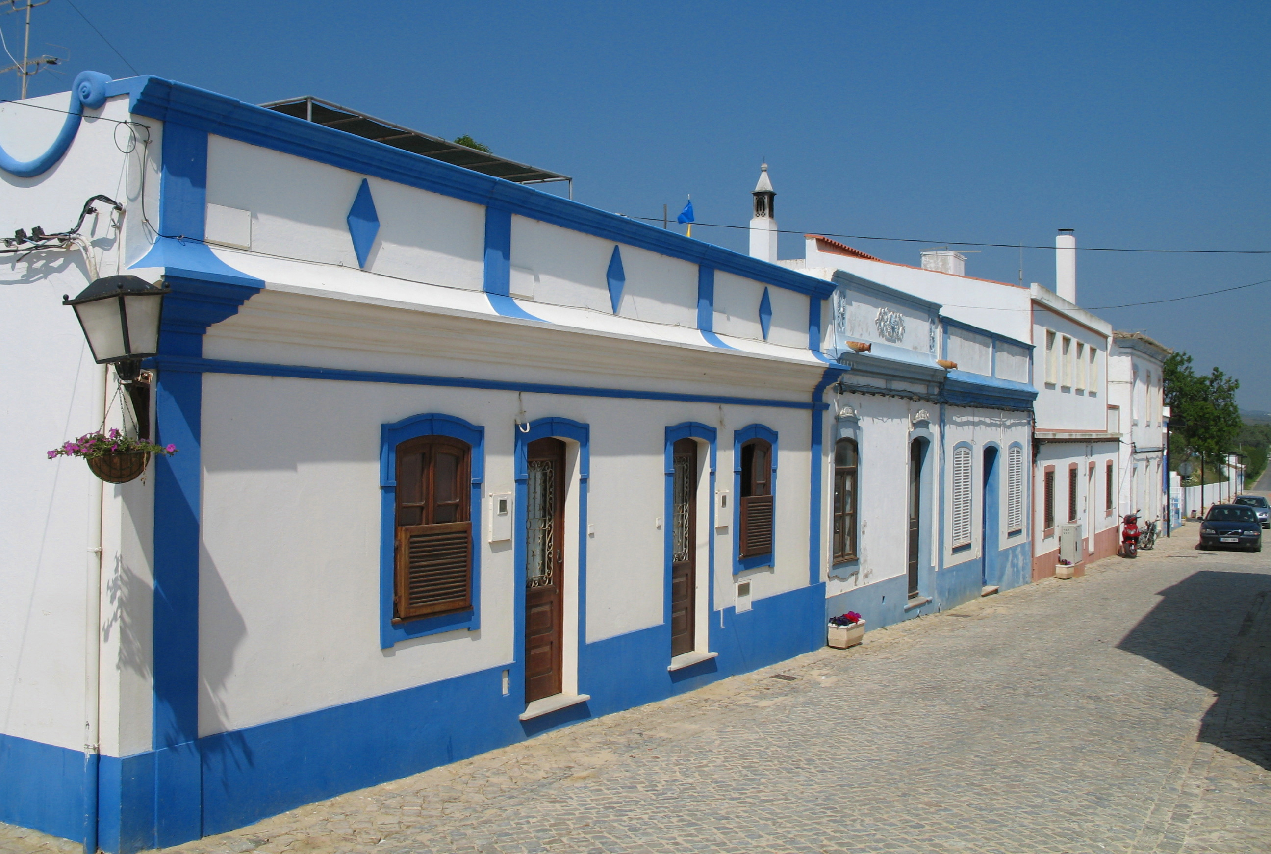 Cacela Velha (Algarve, Portugal): old houses